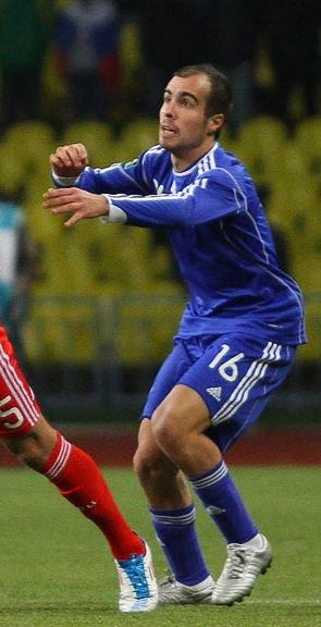 Sebastià Gómez with the Andorra national football team.